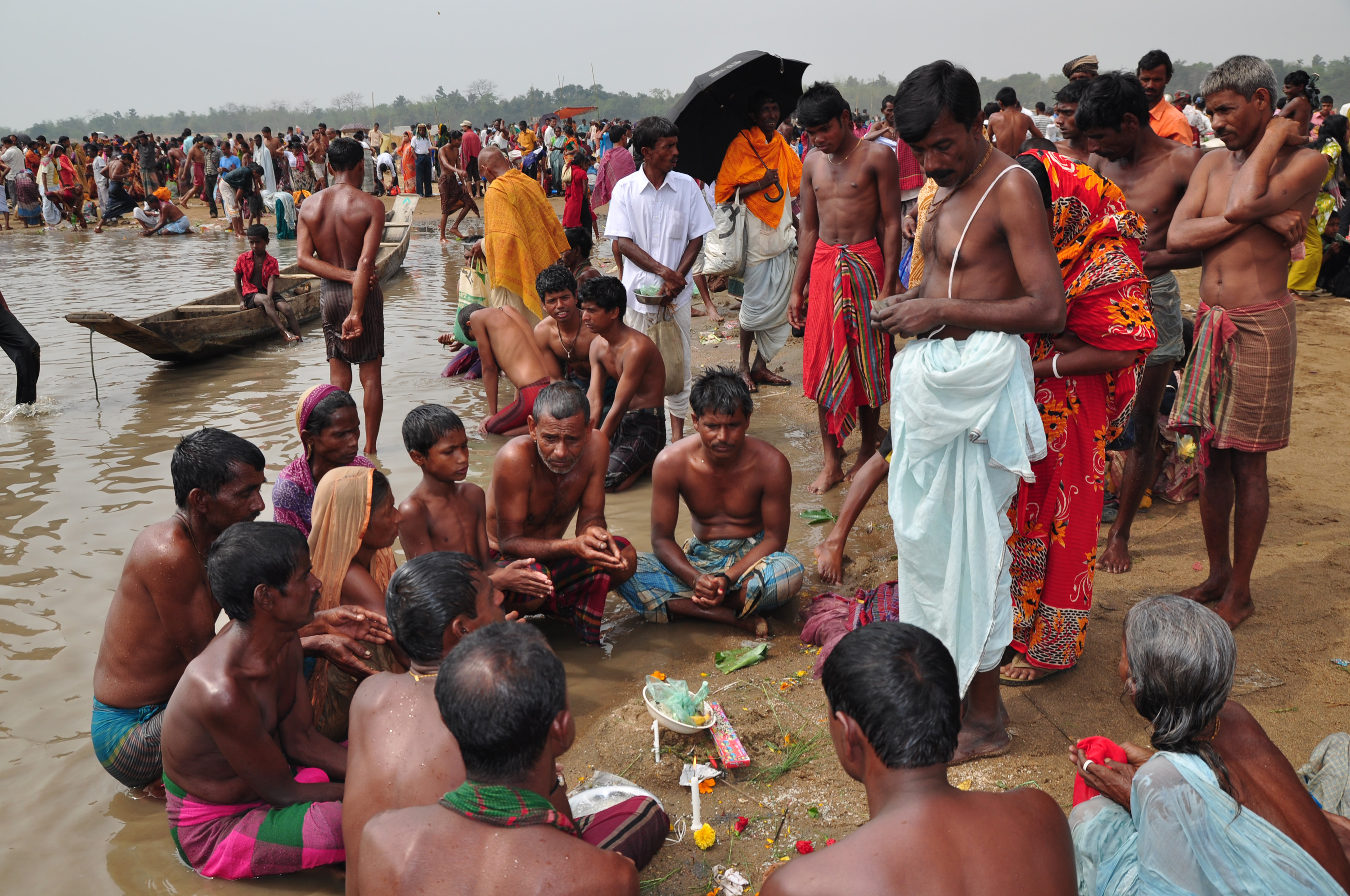 Festival of sacred bath ("Baruni snan" in Bengali) in Bangladesh